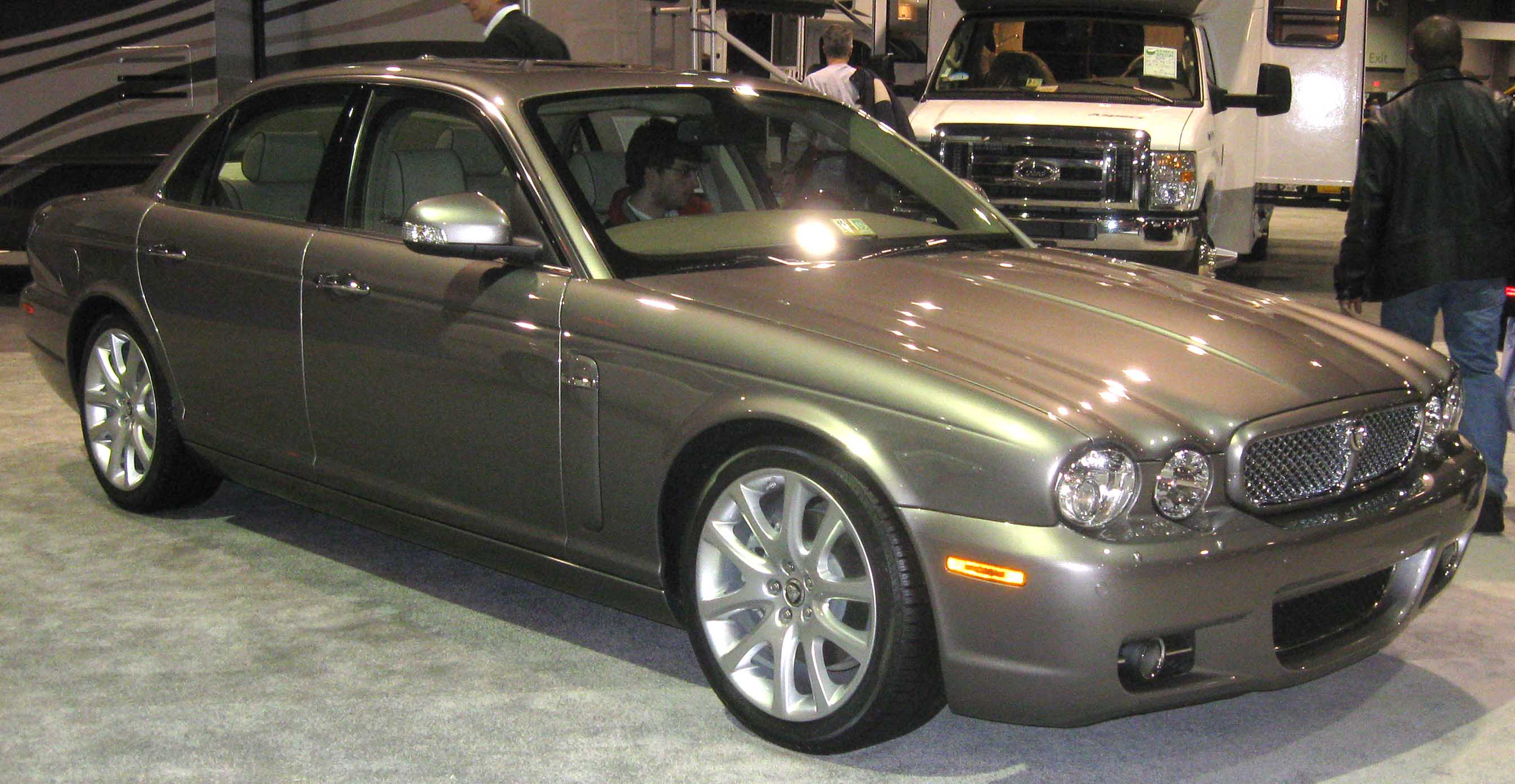 2009 Jaguar XJ8 photographed at the 2009 Washington DC Auto Show.